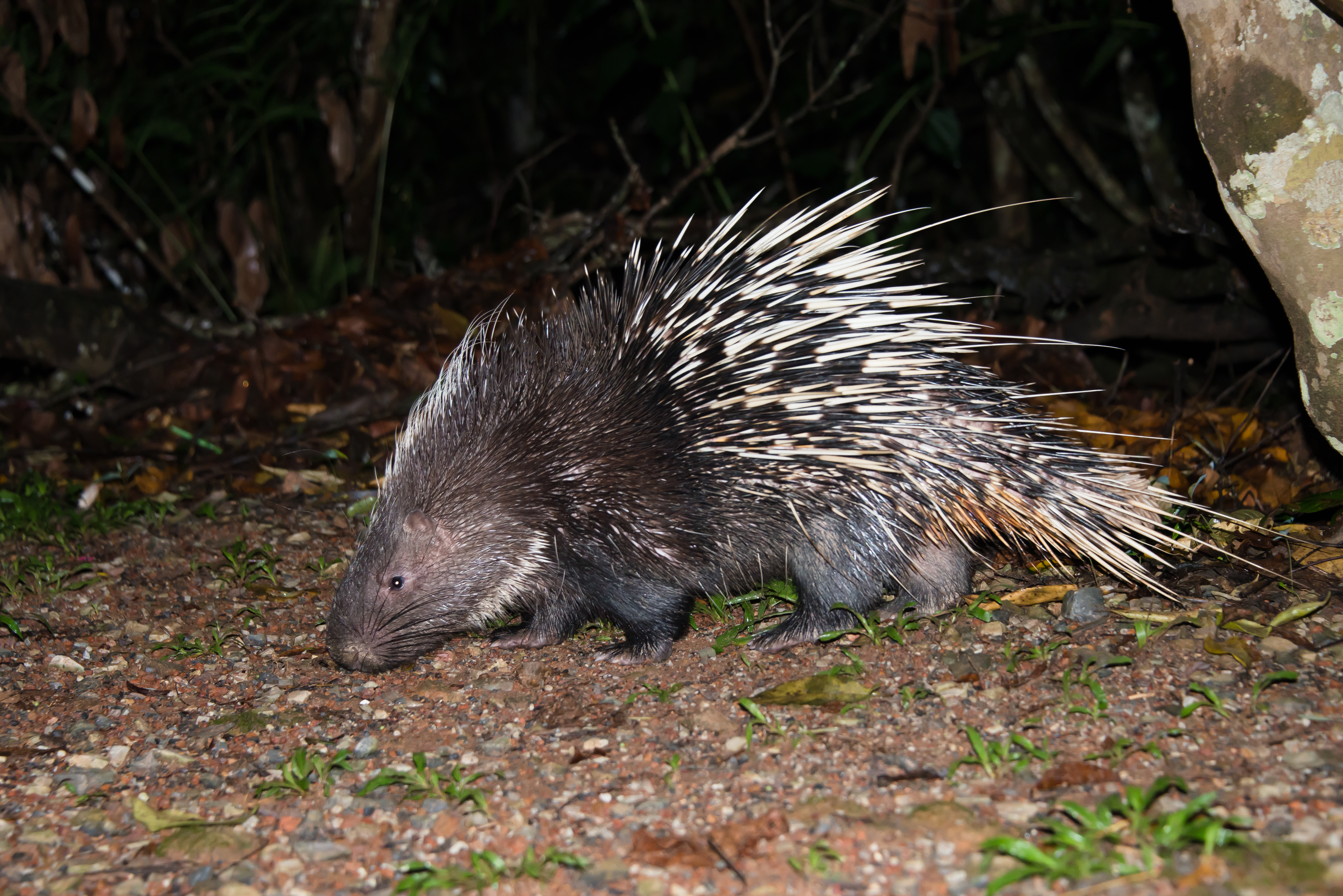 Hystrix brachyura, Malayan porcupine - Khao Yai National Park, Thailand